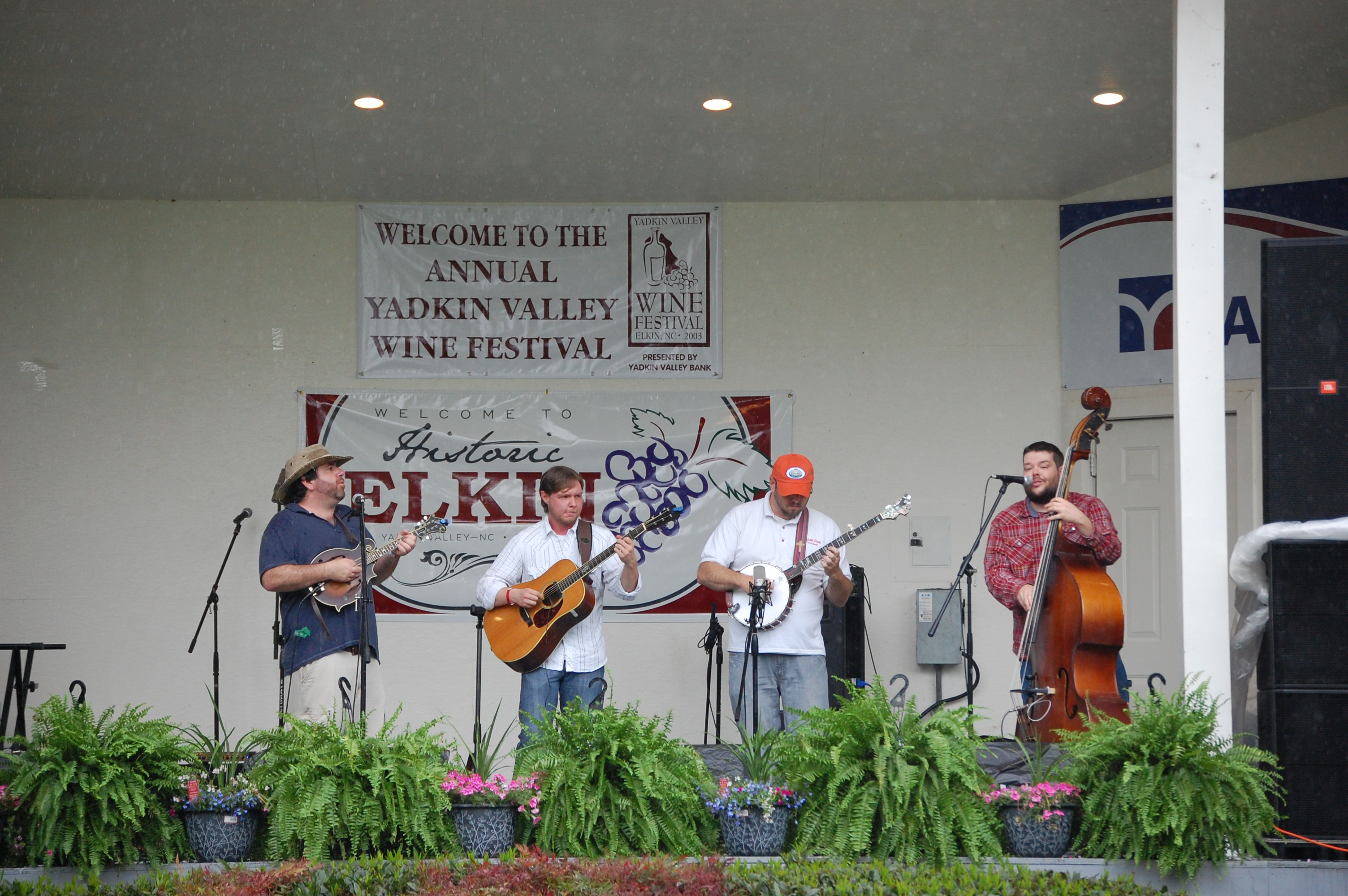 Bluegrass band - 2013 Yadkin Valley Wine Festival